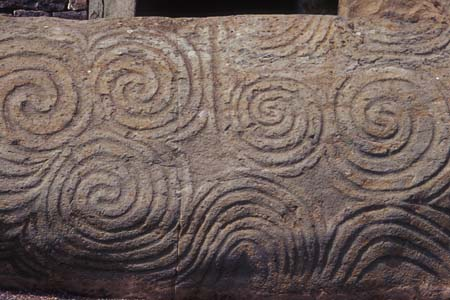 The entrance slab to Newgrange tomb, Ireland. This Irish megalithic stone, about 4500-5500 years old, is 10 feet by 4 feet in size and 5 tons in weight. It is one of the most famous rocks in Ireland and stands--about an hour from Dublin--at the entrance to Newgrange, a “passage tomb” 300 ft. in diameter and 40 ft. high that is older than the Egyptian pyramids and Stonehenge. The carved spiral design, though more ancient than the coming of the Celts to Ireland, was often copied by them and became one of the legendary Celtic designs.